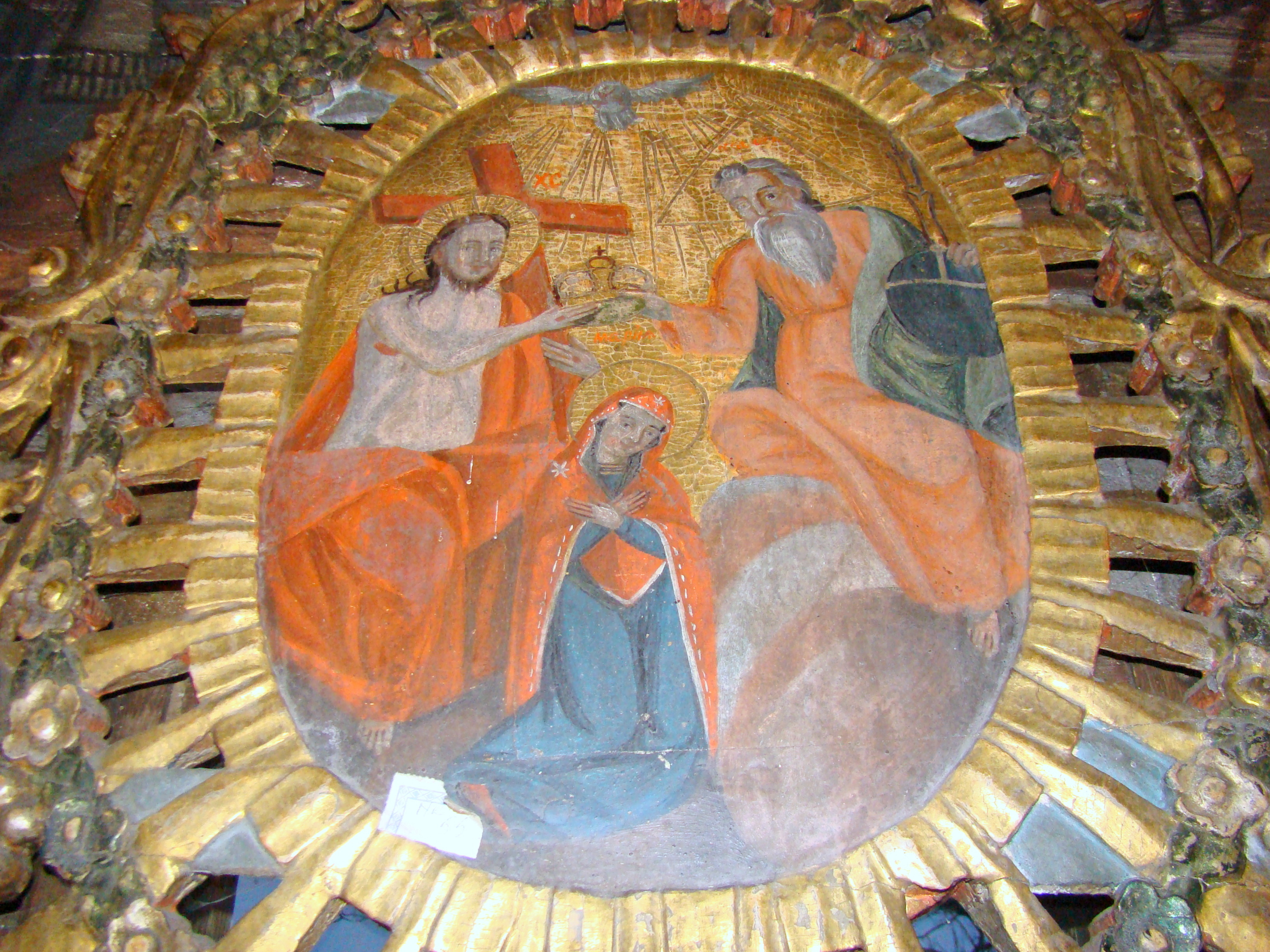 Wooden church in Glod, Maramureș county, Romania